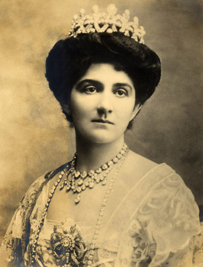 Queen Elena of Italy (b. January 8, 1873 - d. November 28, 1952), wife of Victor Emmanuel III of Italy. (; ).